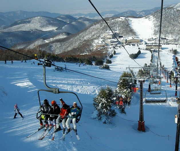 Takamagahara Ski lift - Shiga Kogen Photo: Meg Yamagute